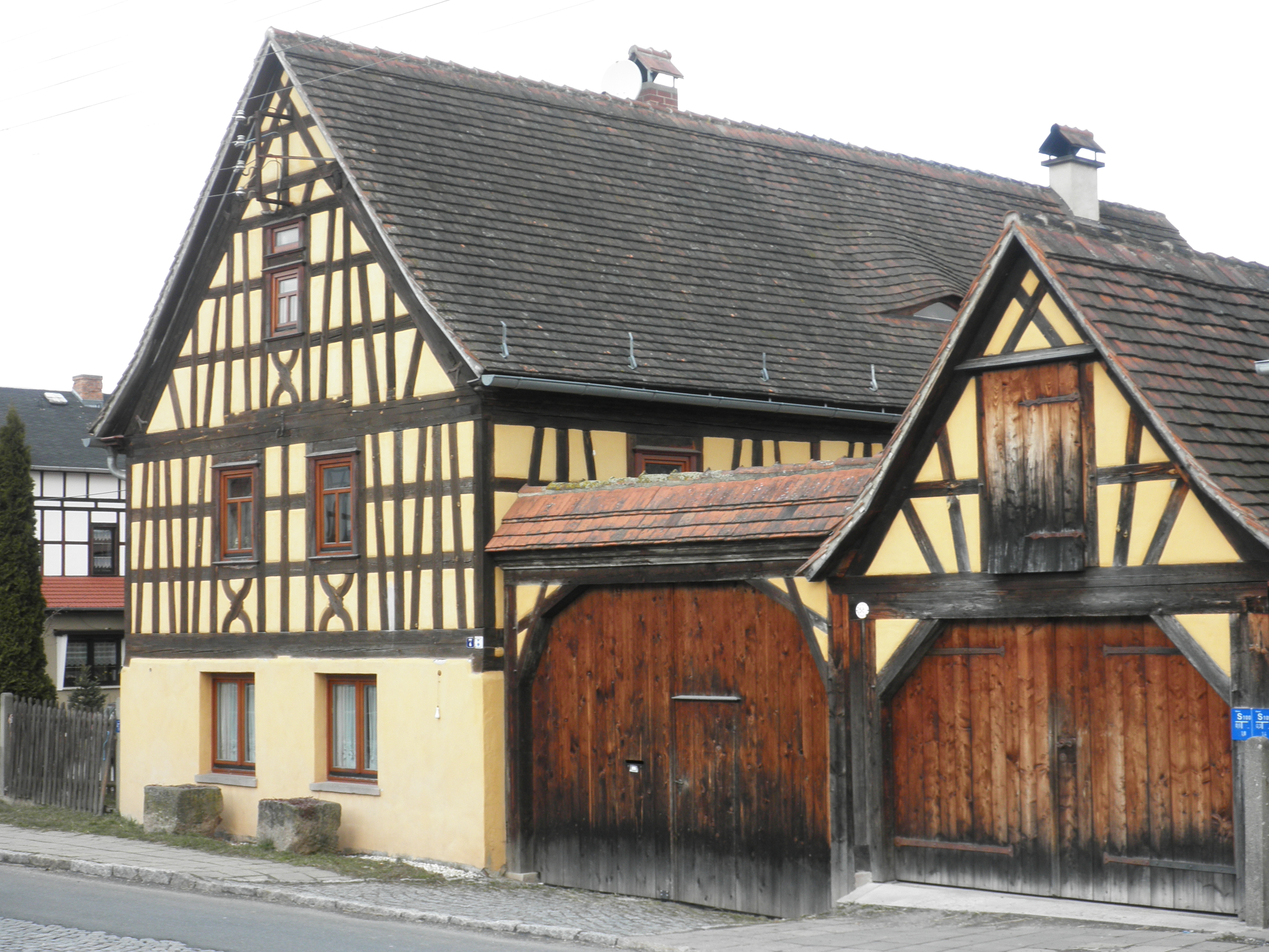 Halftimbered House in Oberbodnitz in Thuringia